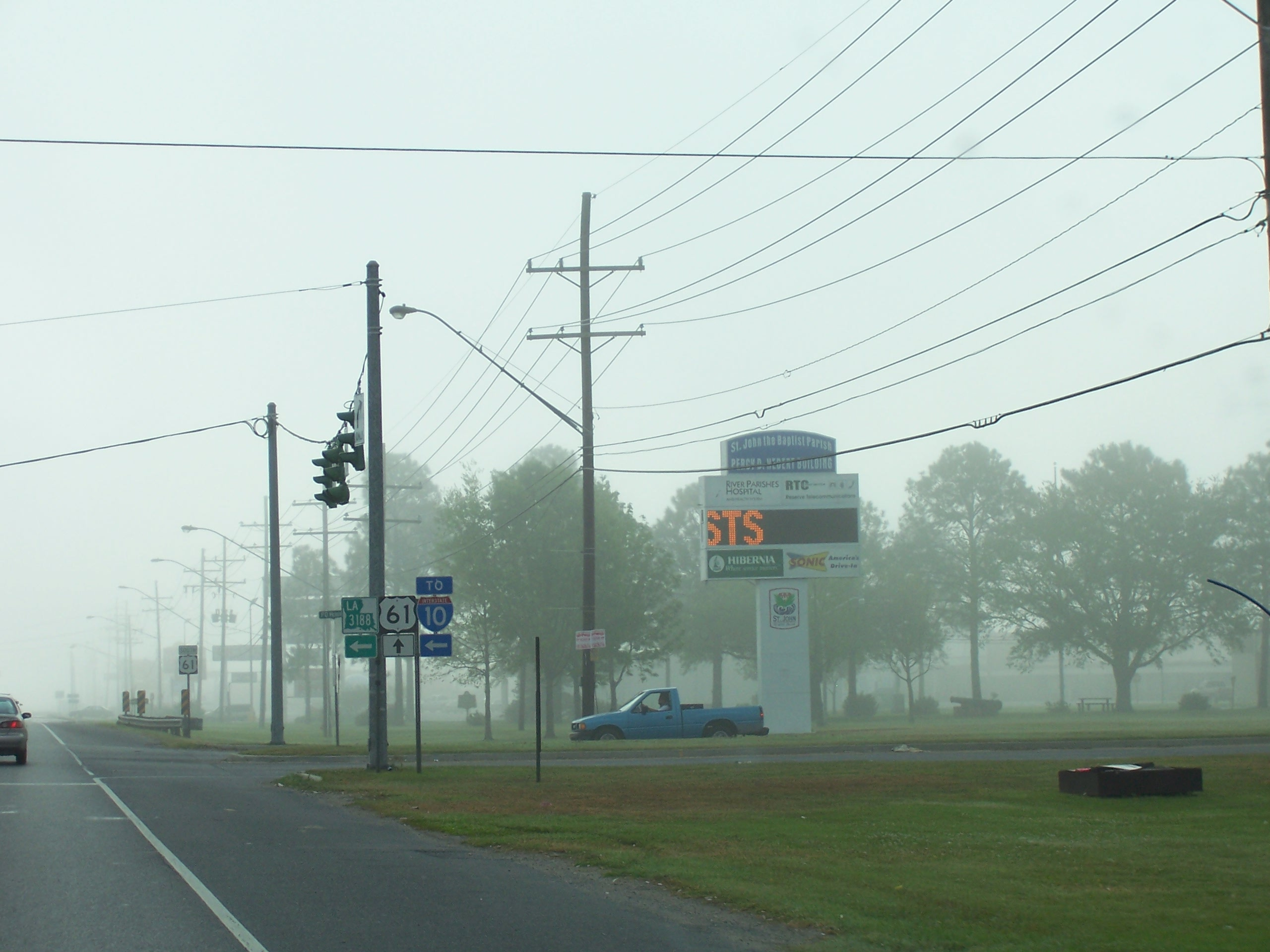 Junction of Louisiana Highway 3188, known as Belle Terre Boulevard, at Airline Highway in Laplace, Louisiana, 2006. Source I made this myself.